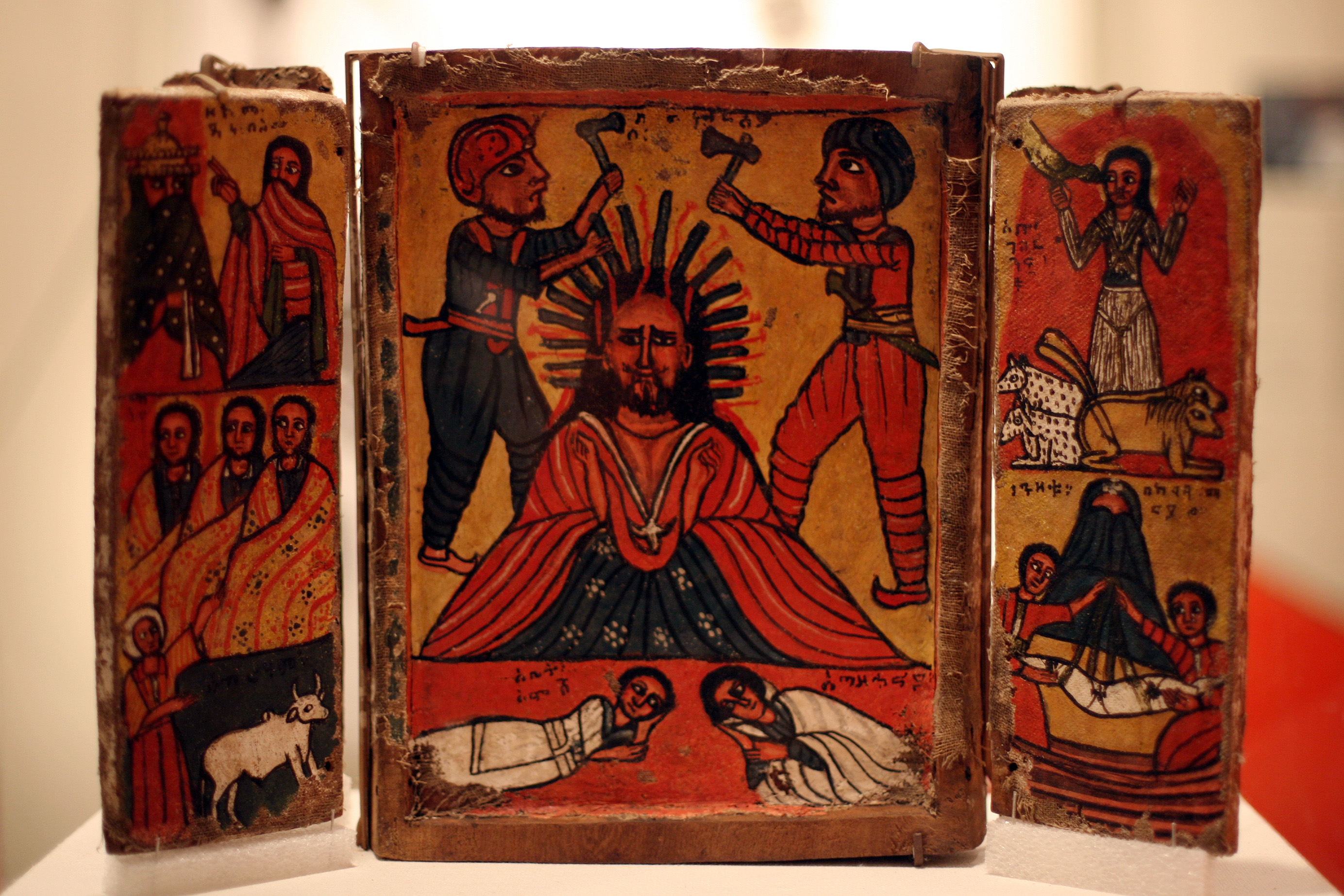 Unknown Amhara Artist. Icon, 19th century. Wool, linen, gesso, tempura. Brooklyn Museum, Gift of Mr. and Mrs. Franklin H. Williams, 76.132.